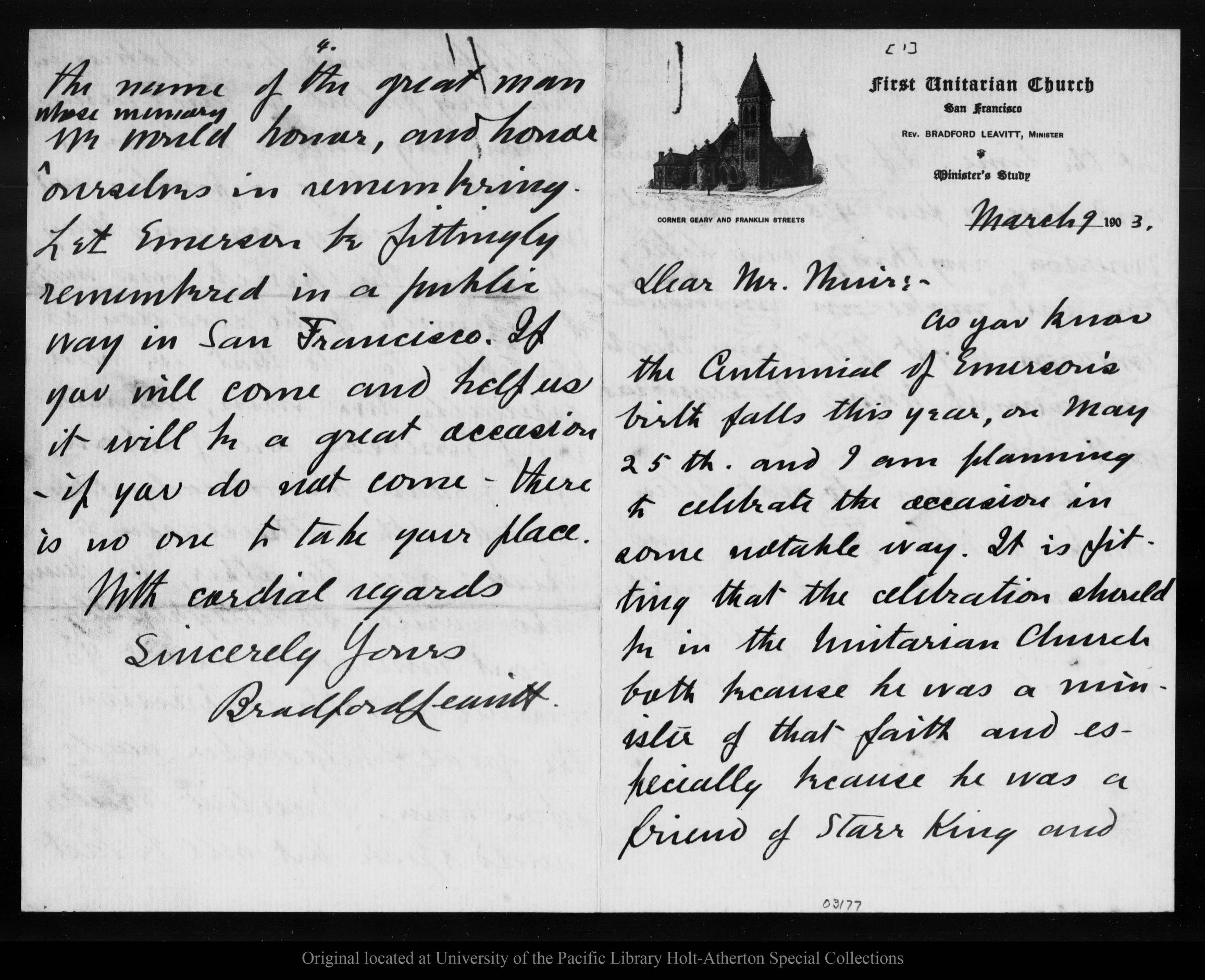 Letter from Rev. Bradford Leavitt of San Francisco's First Unitarian Church to conservationist John Muir, with Leavitt extending an invitation to Muir to help celebrate the centennial of Ralph Waldo Emerson's birth at the church where Leavitt was the minister. "the name of the great man whose memory we would honor, and honor ourselves in remembering. Let Emerson be fittingly remembered in a public way in San Francisco. If you will come and help us it will be a great occasion - if you do not come - there is no one to take your place. With cordial regards Sincerely Yours Bradford Leavitt. 1 letterhead March 9 1903. Dear Mr. Muir:- As you know the Centennial of Emerson's birth falls this year, on May 25th. and I am planning to celebrate the occasion in some notable way. it is fitting that the celebration should be in the Unitarian Church both because he was a minister of that faith and especially because he was a friend of Starr King..." Courtesy of the University of the Pacific.